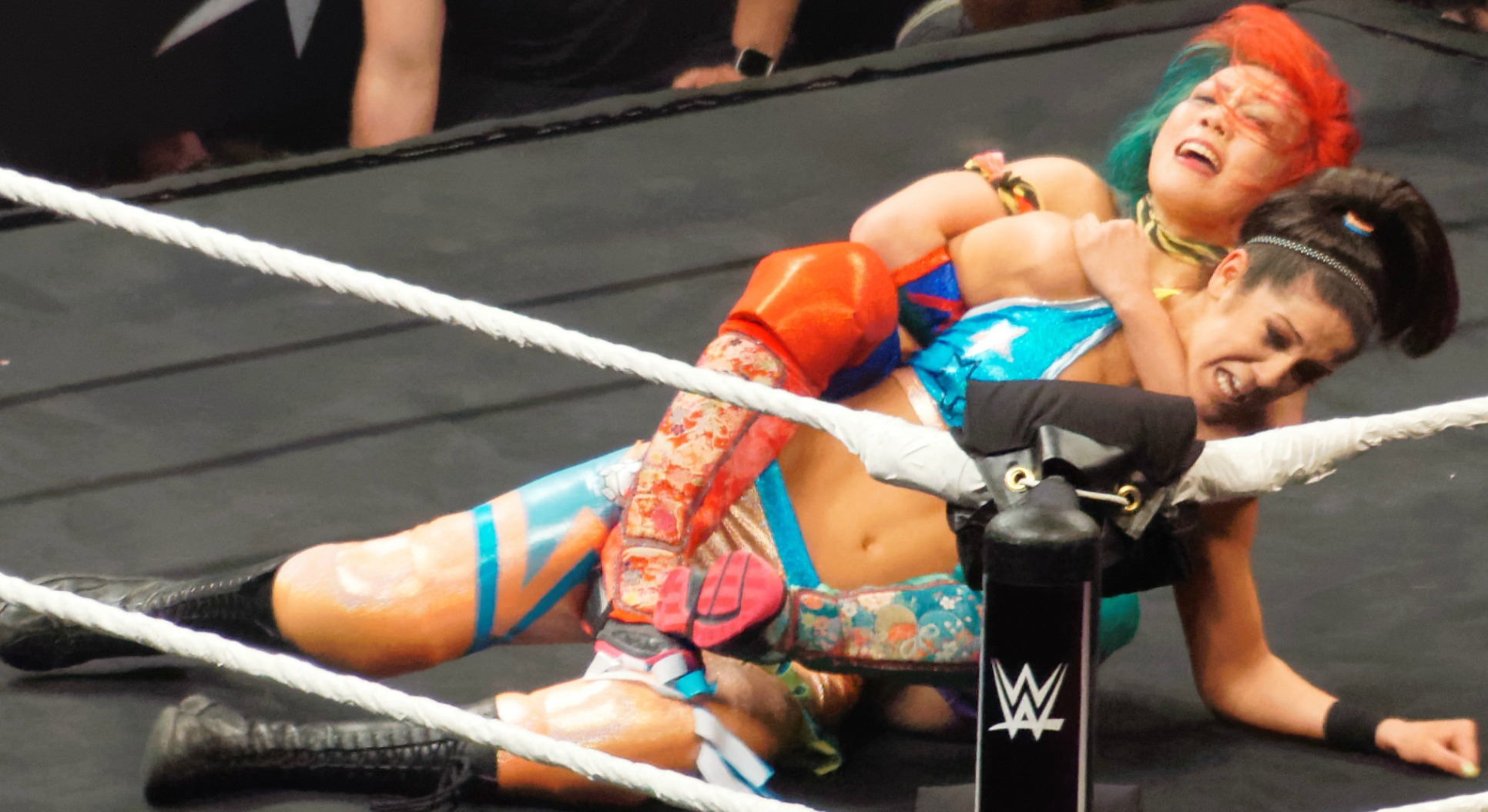 Asuka performing her finisher maneuver the "Asuka lock" on Bayley during the NXT Takeover: Dallas event in April 1, 2016.